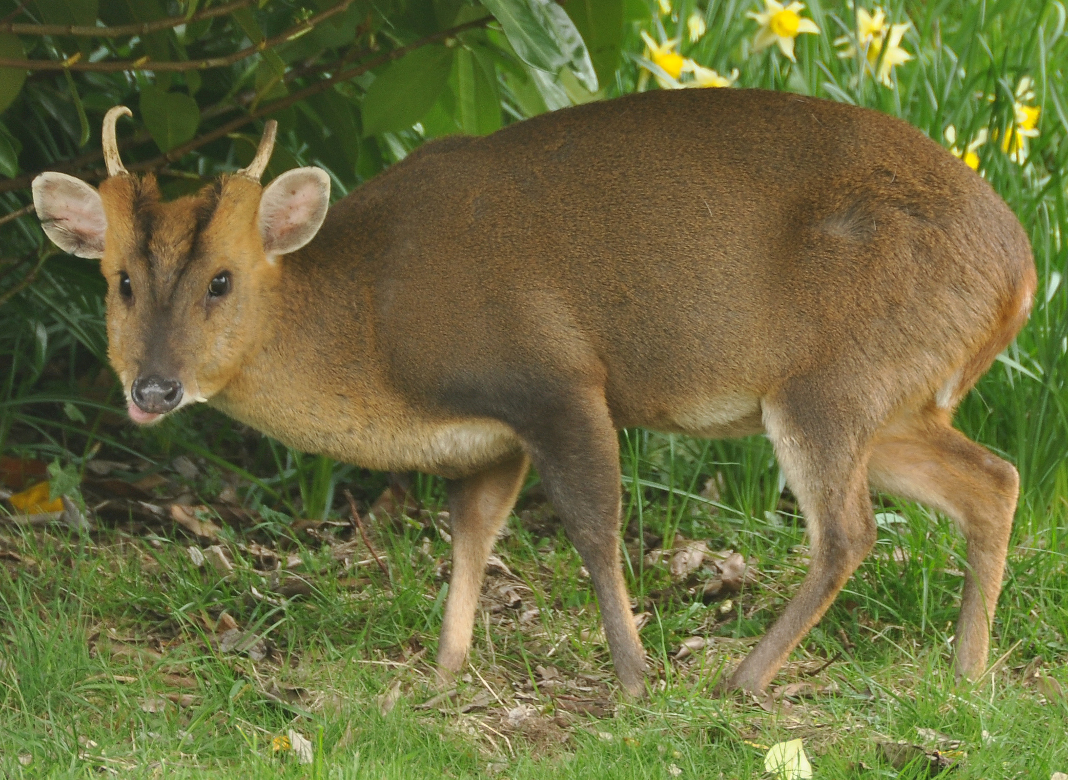 A Reeve's muntjac deer (Muntiacus reevesi) in the grounds of Dumbleton Hall, Gloucestershire.